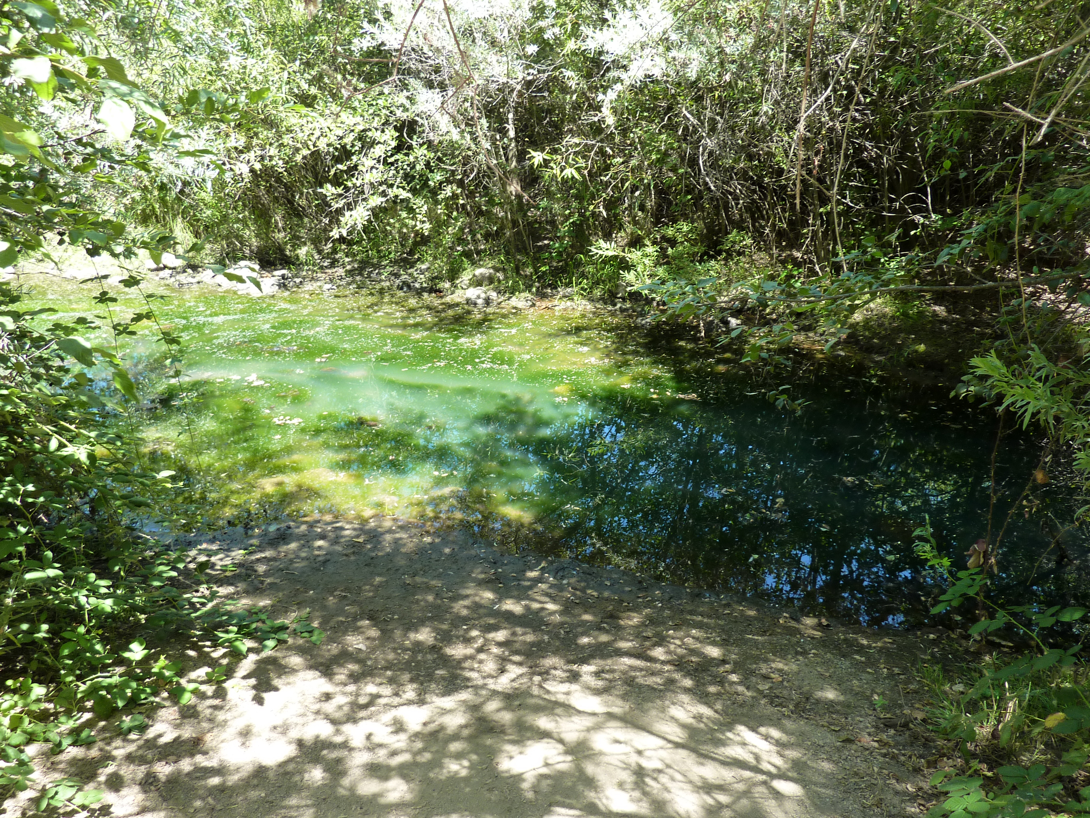 The actual spot, near Sutter's Mill, where James W. Marshall discovered gold and kicked off the great California Gold Rush. Marshall Gold Discovery State Historic Park, California, USA.